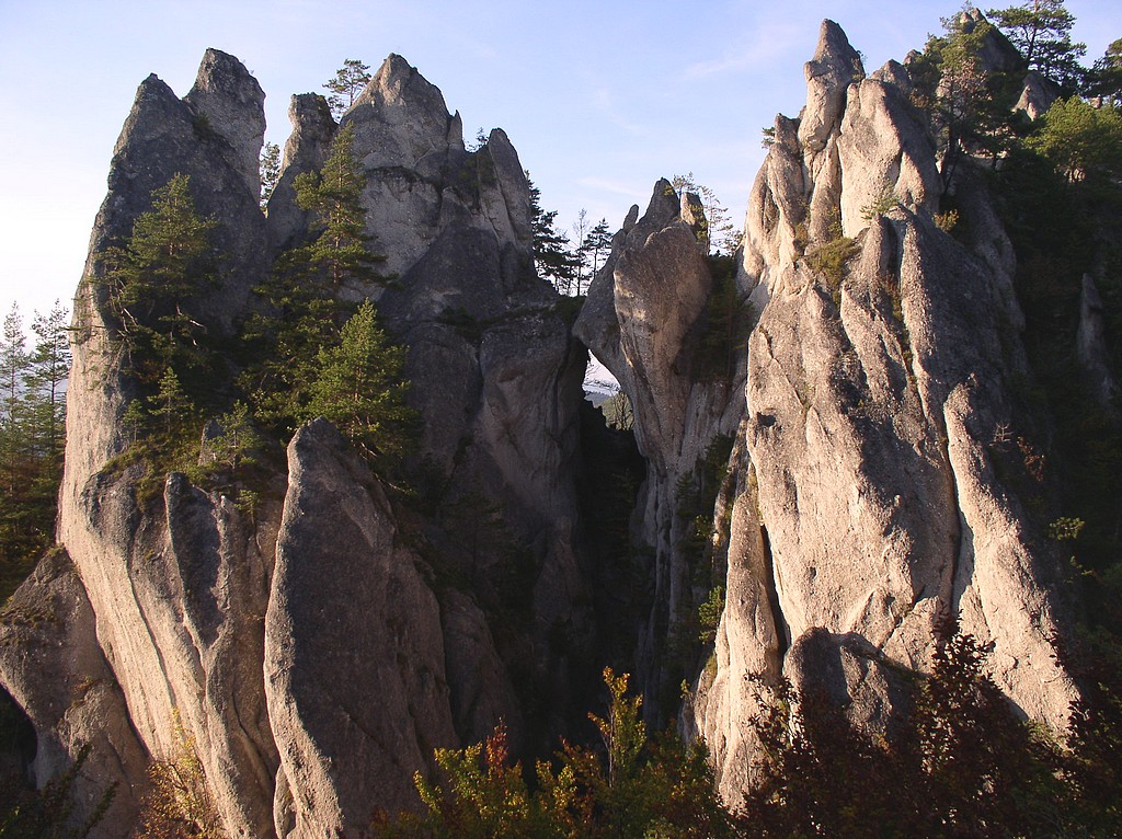 Gotická brána, The Súľov Rocks (Slovak: Súľovské skaly)